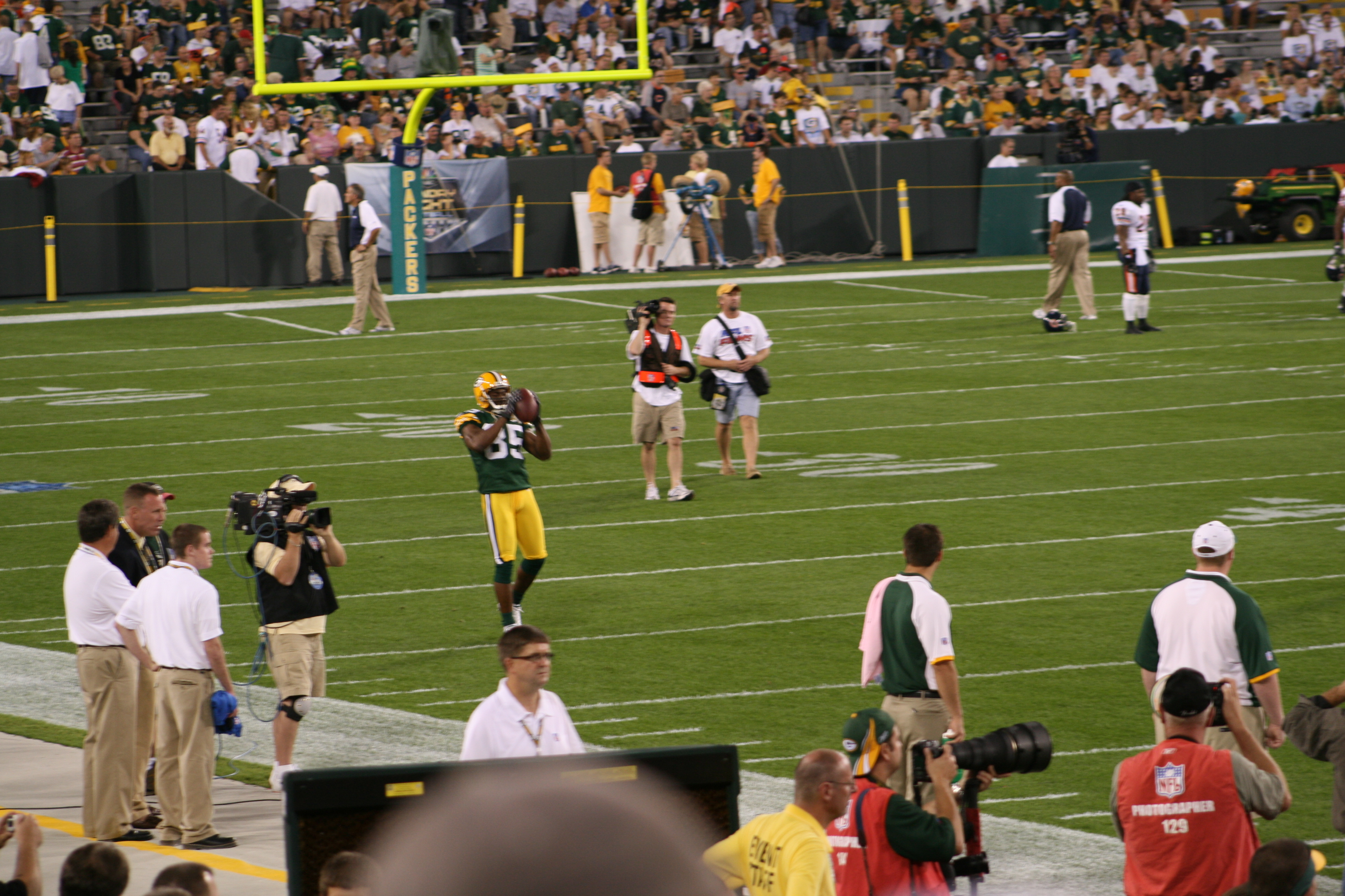 Wide receiver Greg Jennings warming up before a game.